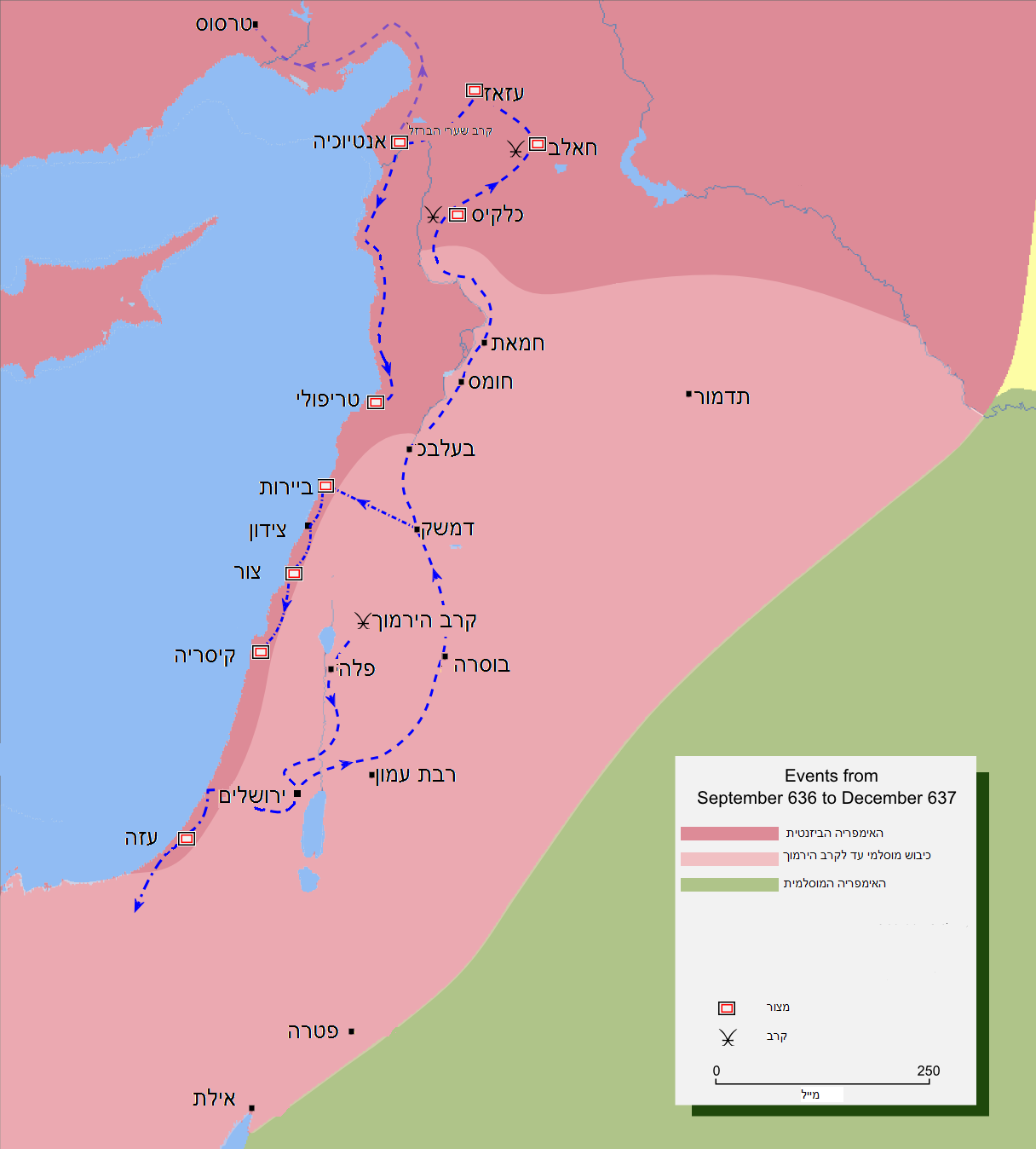 Islam invasion of Syria, Hebrew map